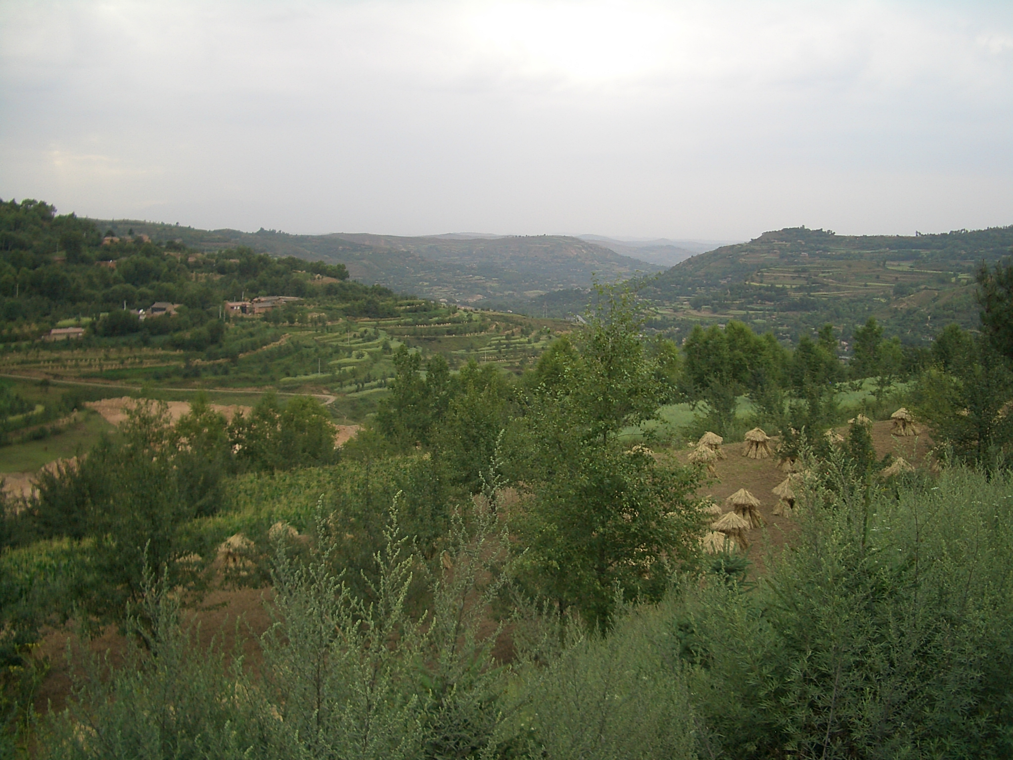 Rural landscape in Hezheng County (probably), Linxia Prefecture, as seen from Hwy S309 as it descends toward the Daxia River valley and the Linxia City area